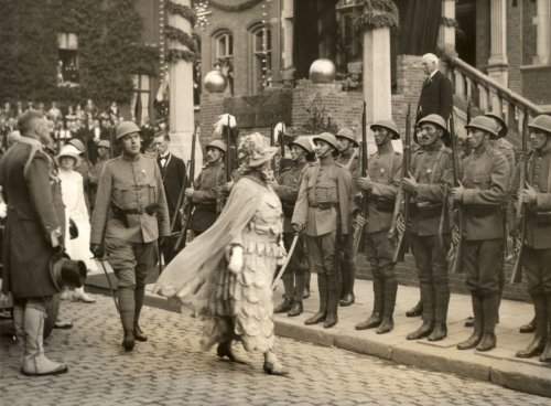 Queen Wilhelmina of the Netherlands and the home guard in Heerlen, Limburg, the Netherlands.